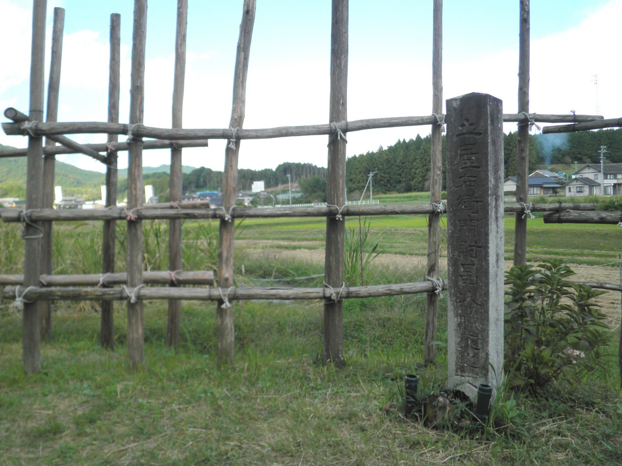 The place where Tsuchiya Masatsugu killed in the Battle of Nagashino.